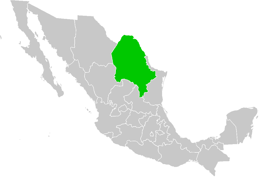 Map of the former Mexican state of Nuevo León y Coahuila